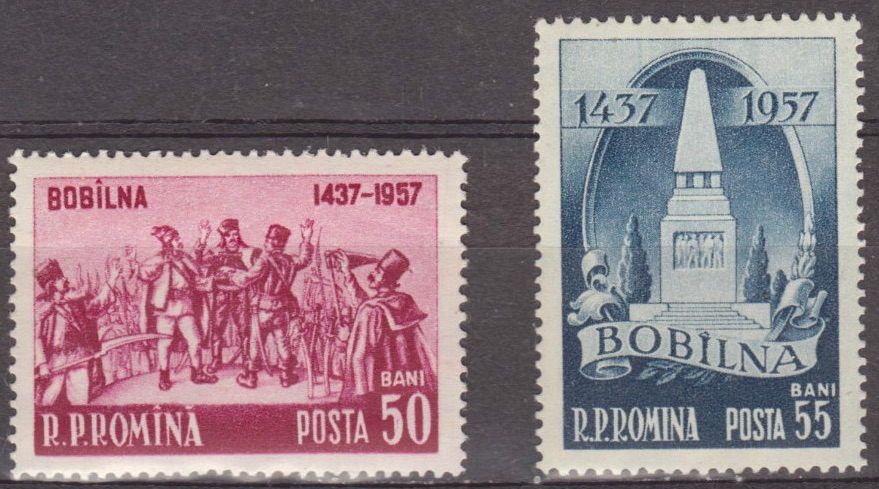 Pair of Romanian postage stamps commemorating the Bobâlna revolt.